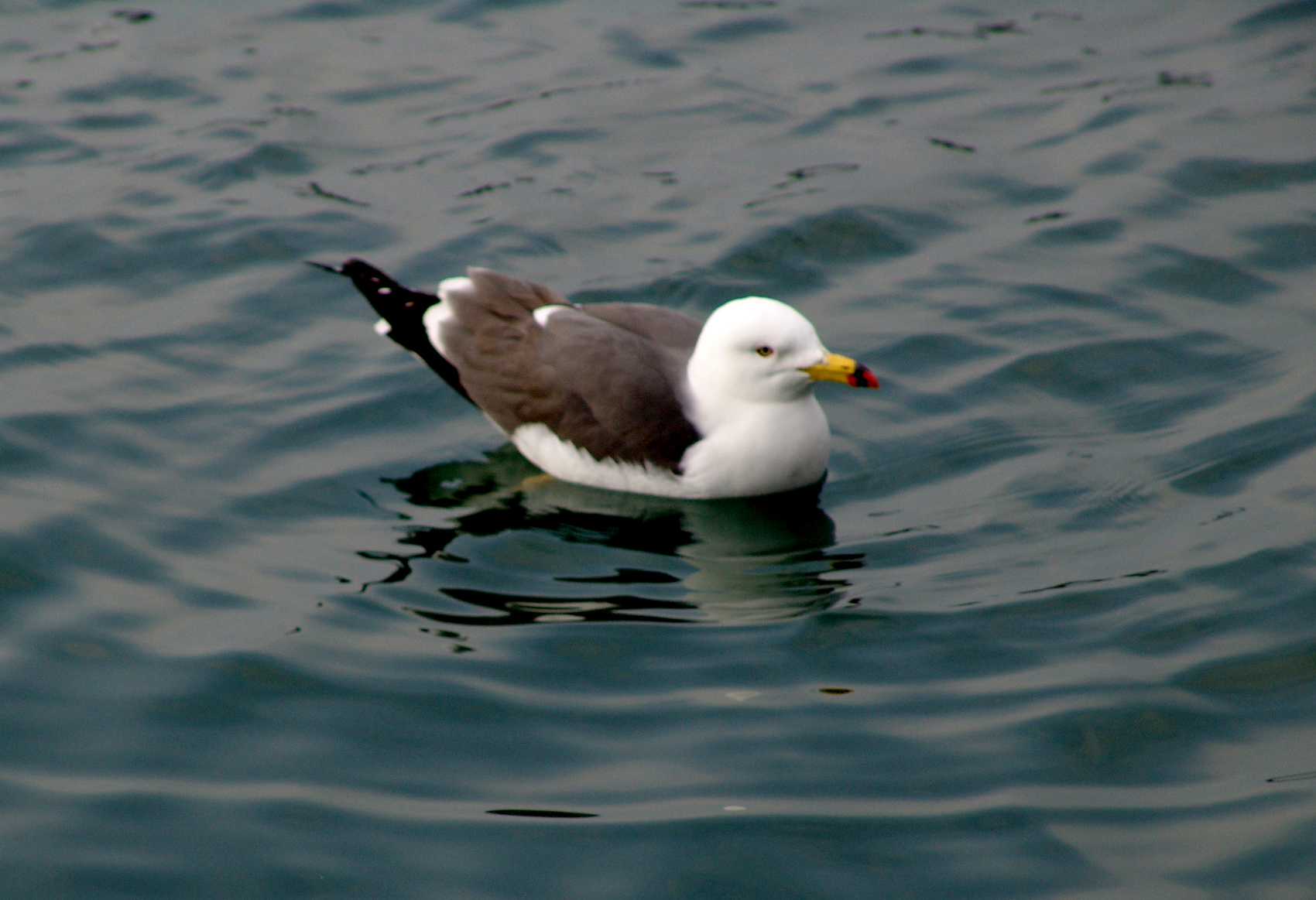 Larus crassirostris in water